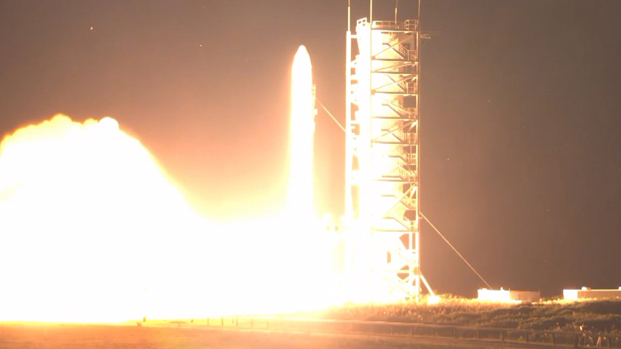 The Lunar Atmosphere and Dust Environment Explorer during liftoff.